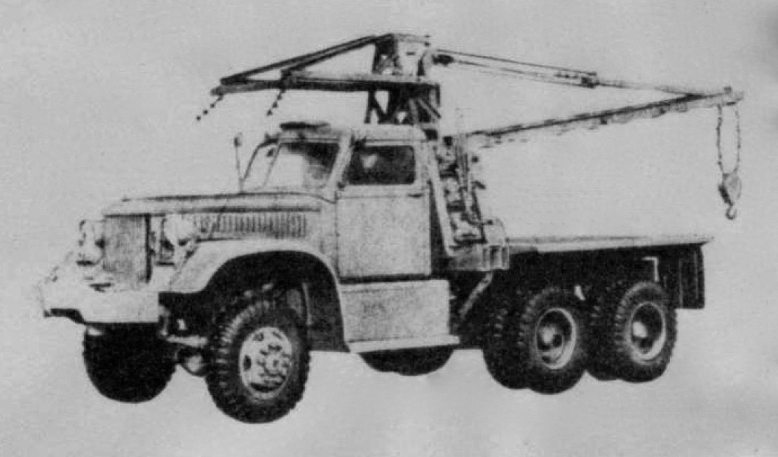 Diamond T 4-ton 6x6 chemical warfare crane